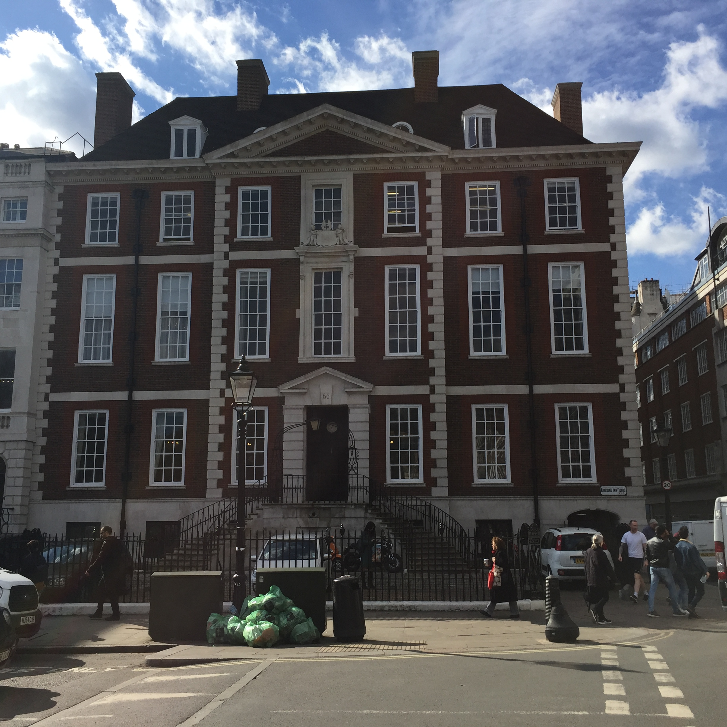 Picture of Newcastle House, London, taken in March 2017 from the adjacent Lincoln's Inn Fields